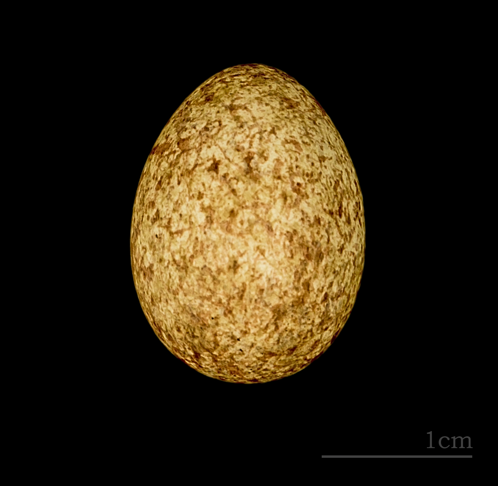 Egg of Grey-necked Bunting. Collection of Jacques Perrin de Brichambaut.